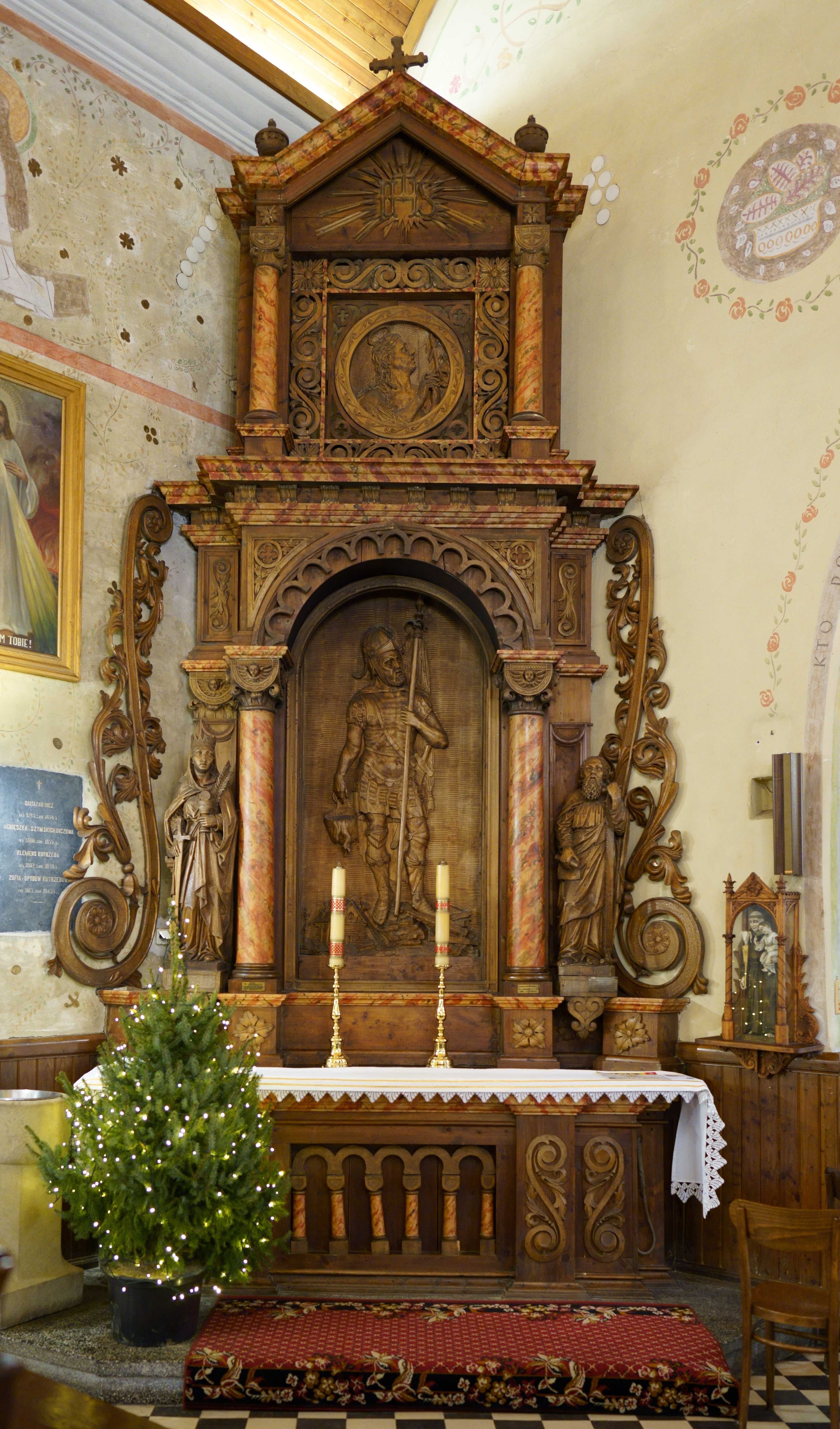 Church of St. Jacob in Myślenice